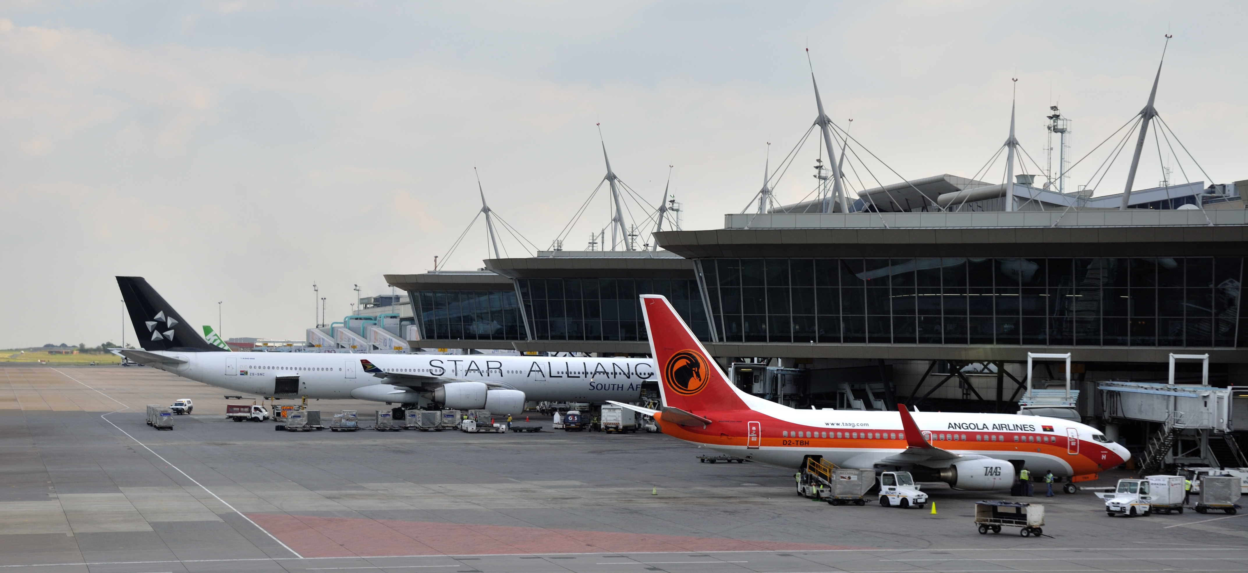 South Africa, spotting at OR Tambo Intl. Airport in Johannesburg